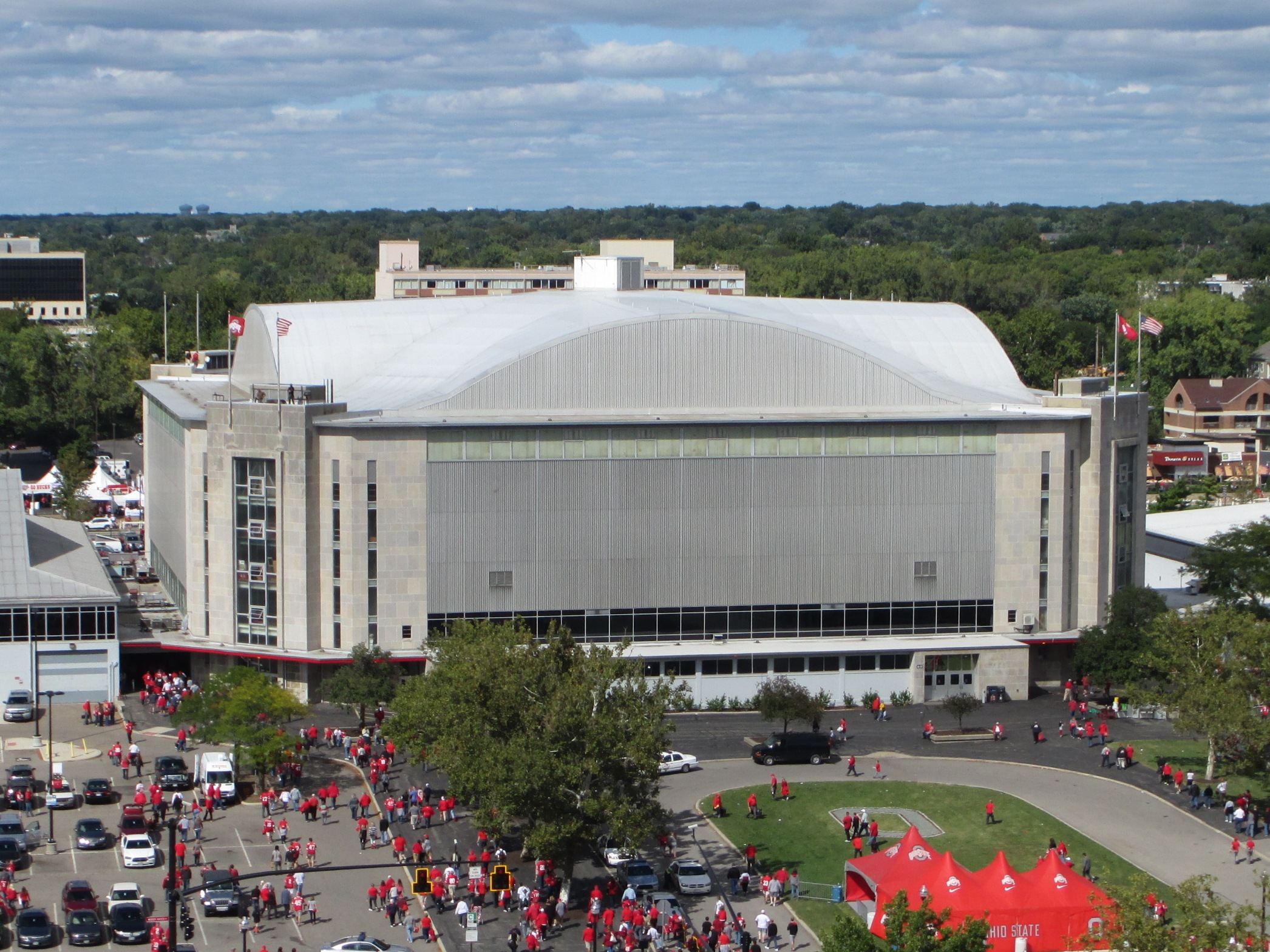 View of St. John Arena on the campus of The Ohio State University in Columbus, Ohio, USA, as seen from Ohio Stadium.